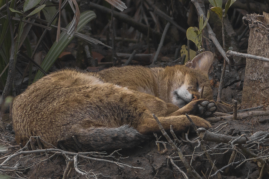 The specie Jungle Cat (Felis Chaus) had been photographed from Sundarbans, India on 30.12.2014. Felis chaus kutas